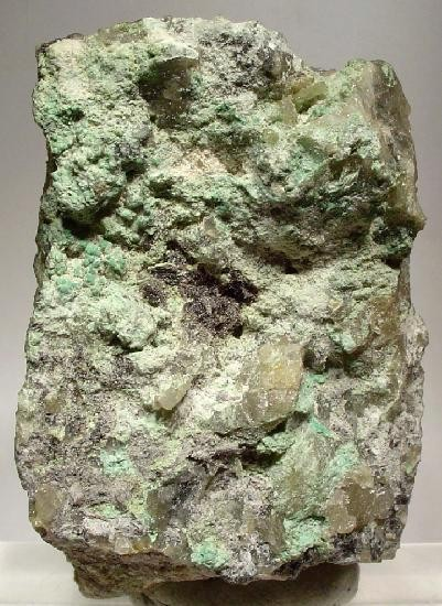 Turquoise, Turquoise (Var.: Rashleighite) Locality: Bunny Mine (Bonny Mine; Wh Eliza; St Austell Hills Mine; Shelton Mine), Bugle, Hensbarrow Downs, Luxulyan Area (Luxulian Area), St Austell District, Cornwall, England, UK (Locality at ) RARE, pastel-green turquoise variety rashleighite richly covers one face of the quartz-rich matrix from the Type Locality - the Bunny Mine, St. Austell, Cornwall, England. Rashleighite is the ferrian variety of turquoise. Ex Richard Hauck Collection. 5.5 x 4.5 x 4.1 cm